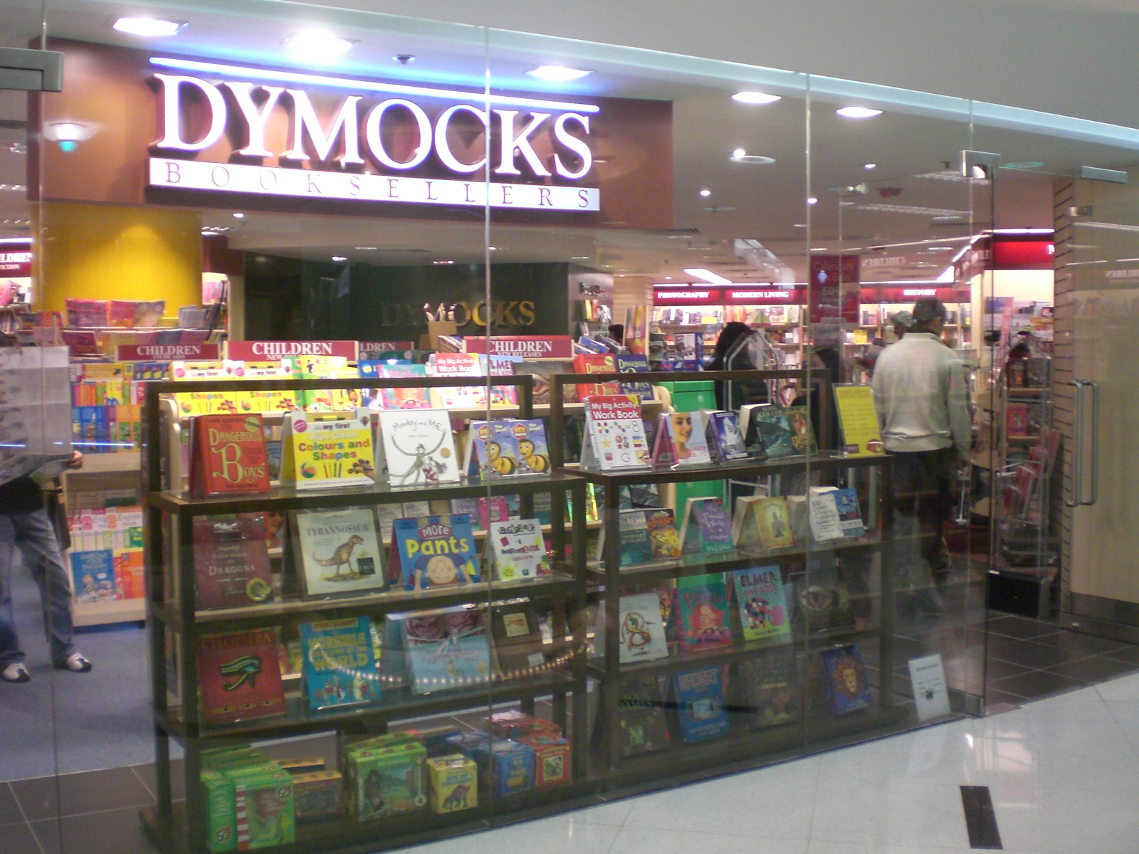 IFC MALL